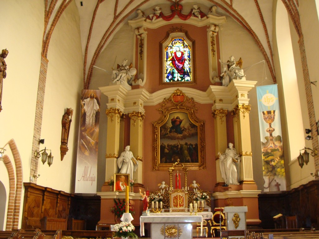 Śrem, Church of the Assumption of the Blessed Virgin Mary, high altar.